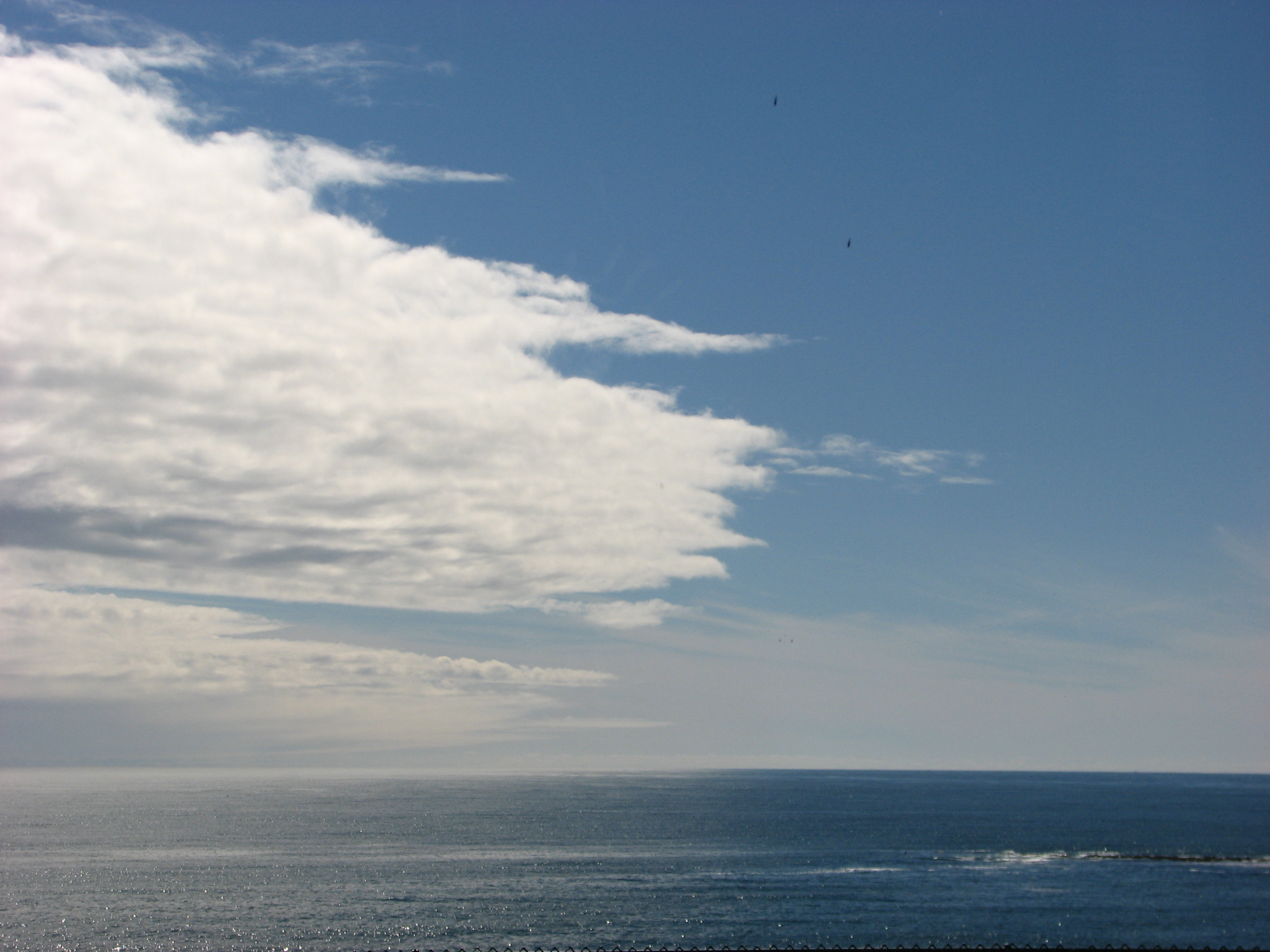 The Pacific Ocean near Otter Rock, OR in the summer of 2007